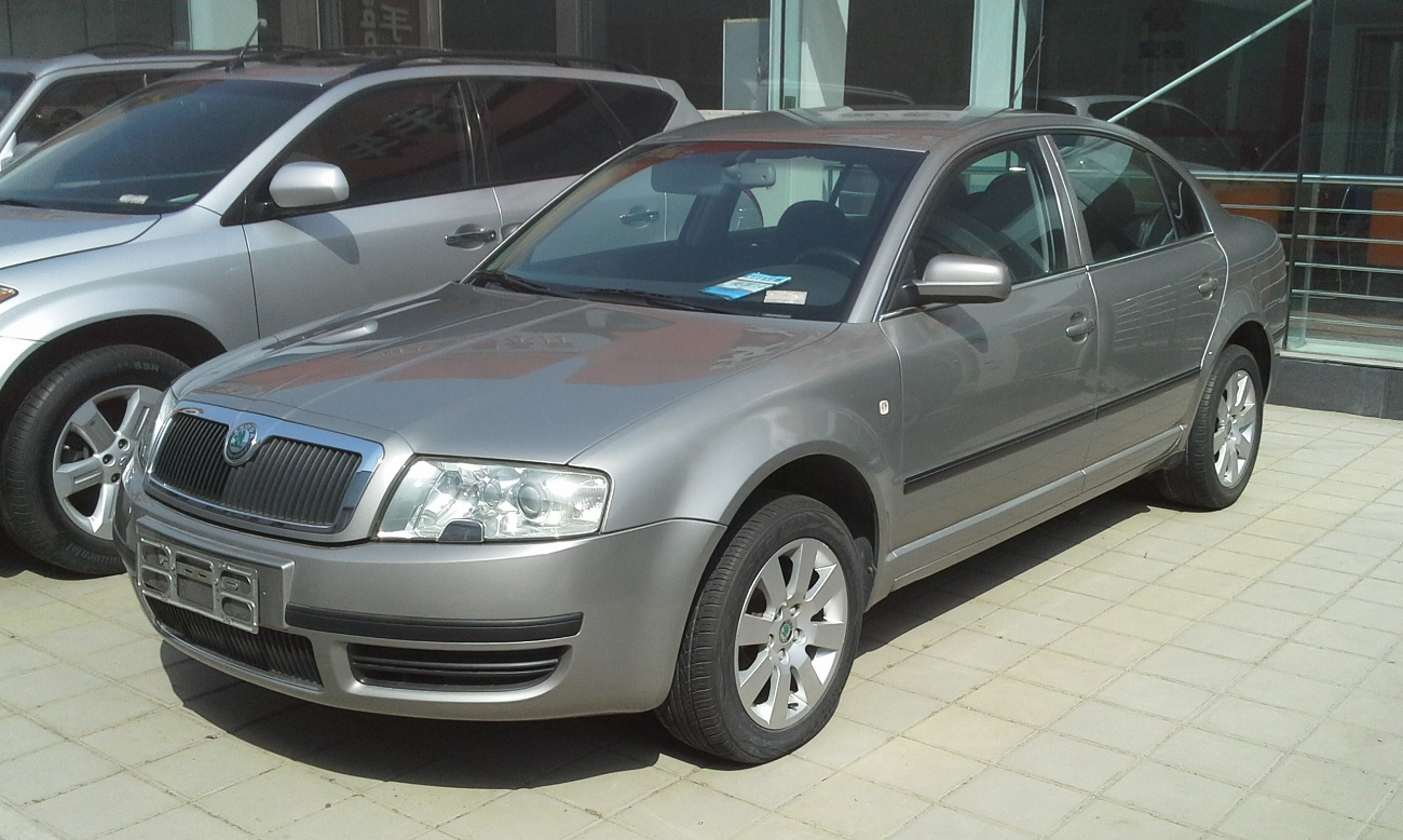 Škoda Superb photographed in Beijing, China.